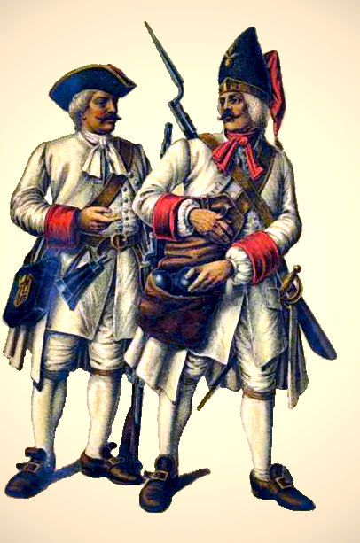 Adapted from print in the Vinkhuijzen Collection of Military Costume Illustration assembled by H. J. Vinkhuijzen (1843-1910)